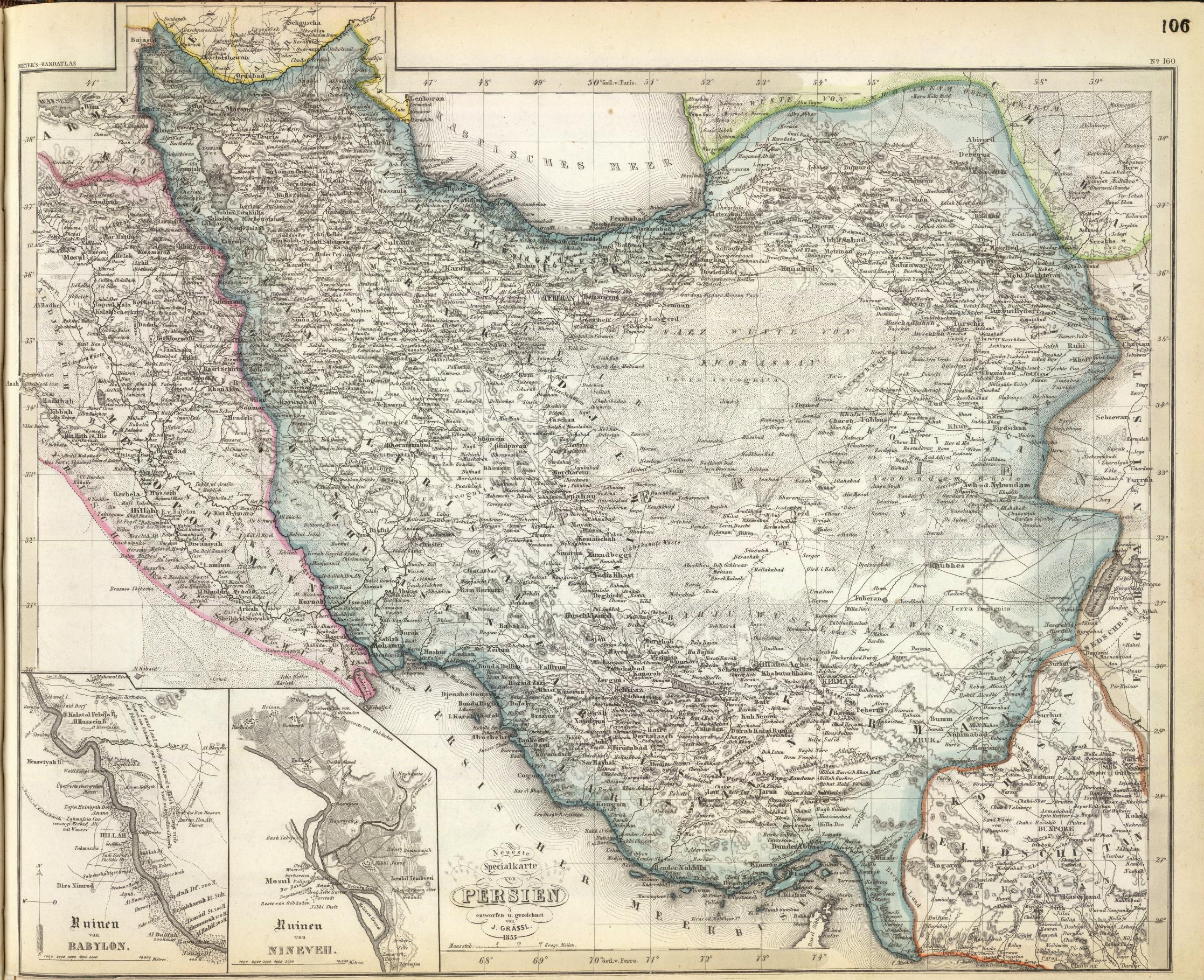 Joseph Grassl: "Neueste Specialkarte von Persien" (1855)